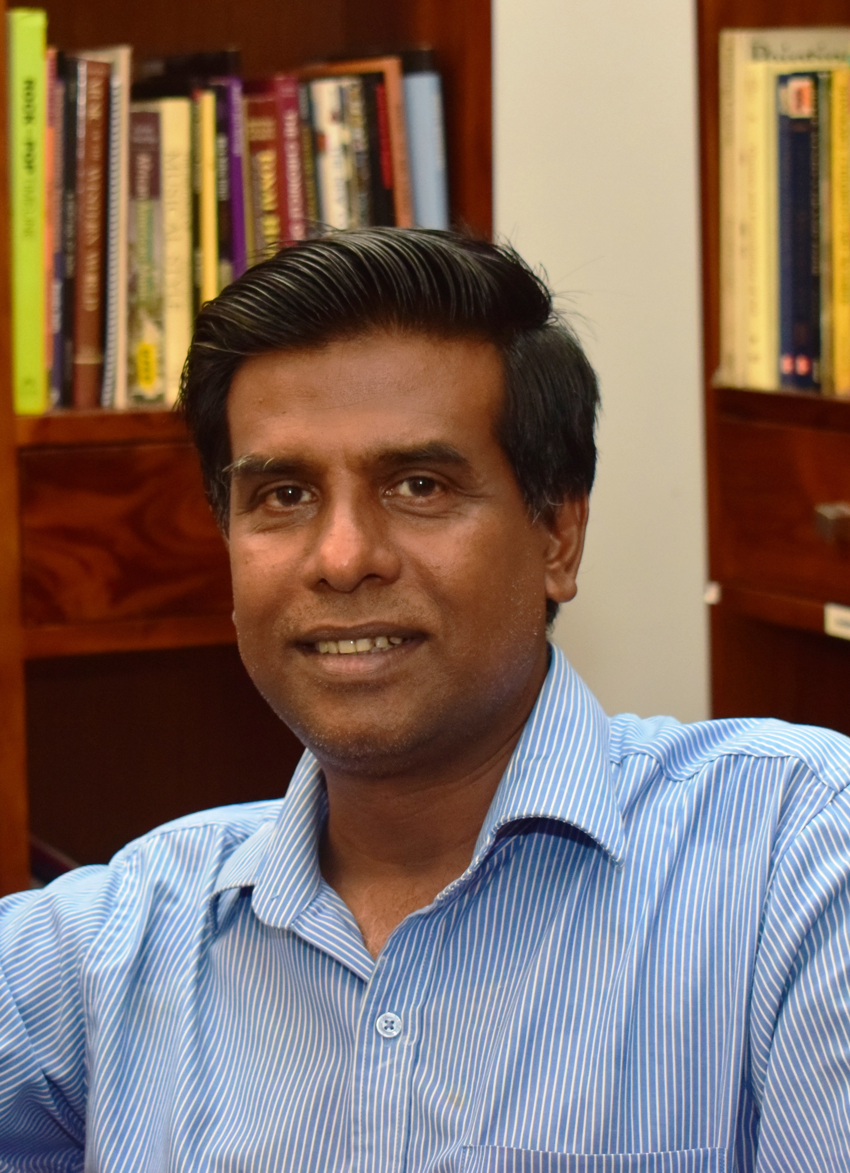 Profile photo of Malinda Seneviratne